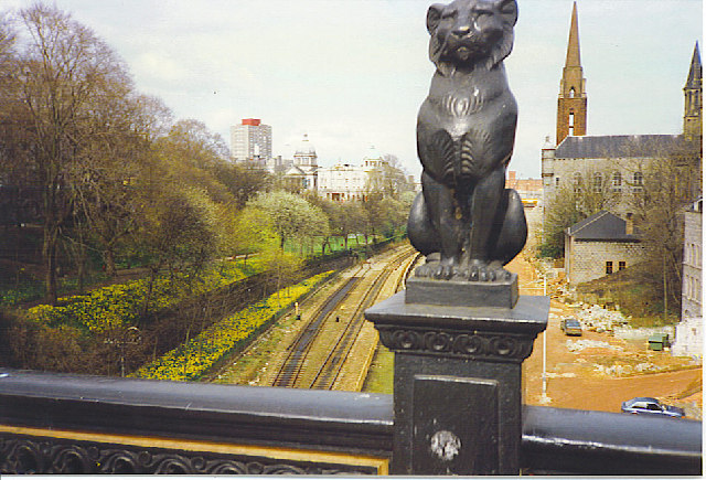 One of "Kelly's Cats", Union Bridge. Above the Denburn Valley. Below are Union Terrace Gardens, the railway to Inverness, and the Denburn dual carriageway under construction.